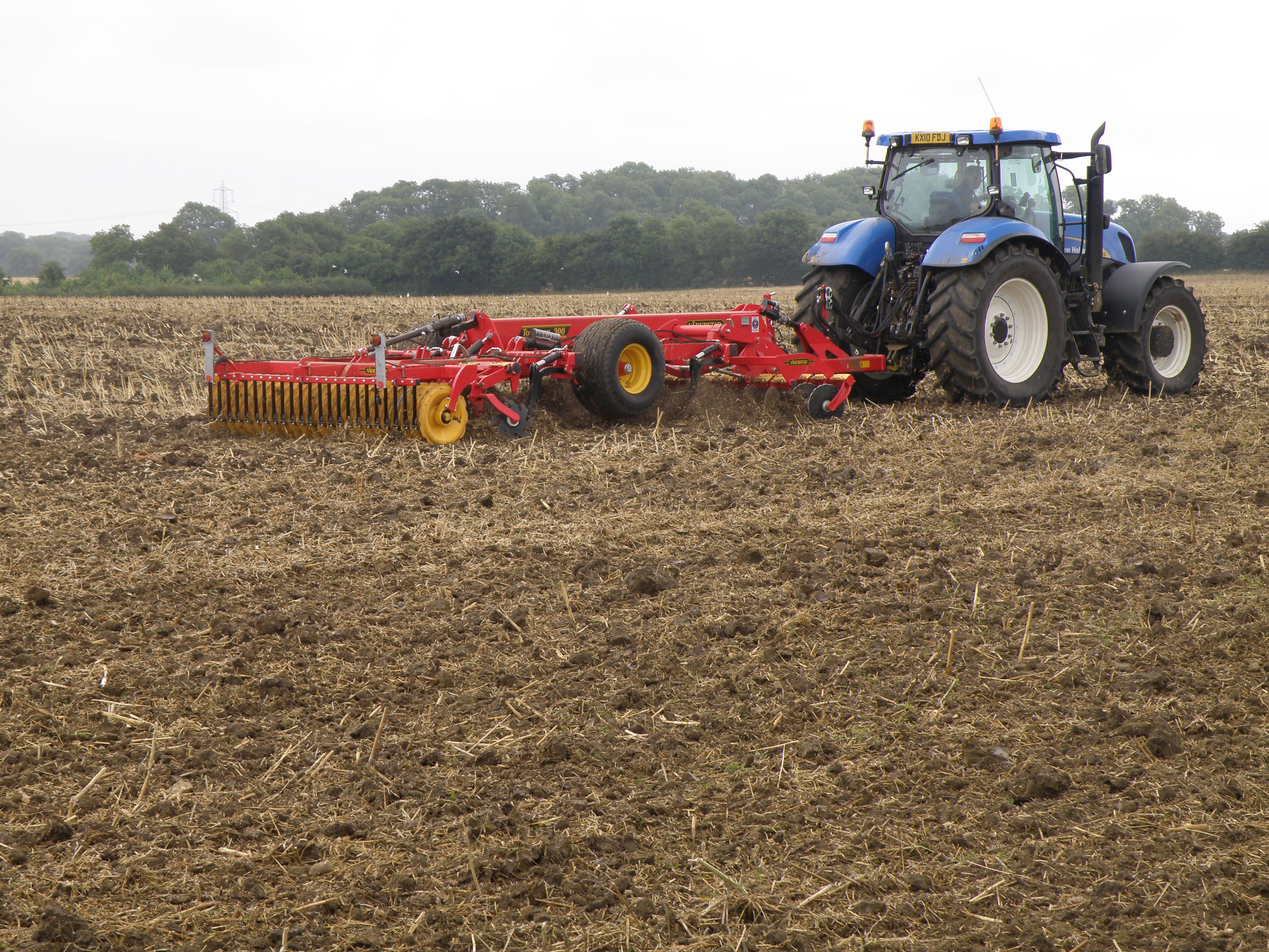 Stubble cultivation near Great Gidding, Cambridgeshire, Great Britain. A Väderstad Top Down cultivator being pulled by a New Holland T7050 working in the parish of Great Gidding.